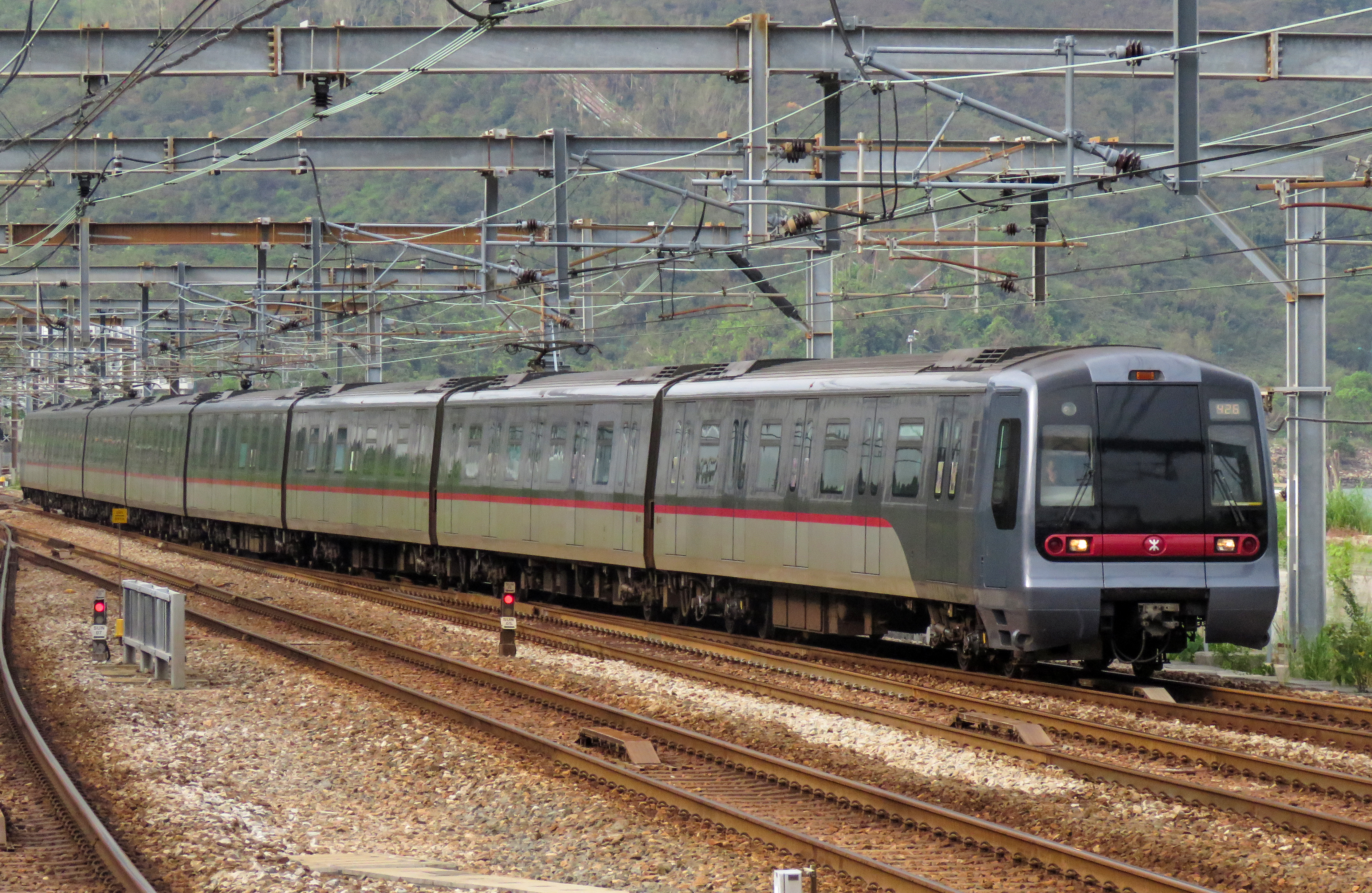 One of the only 4 Rotem trains on Tung Chung Line.